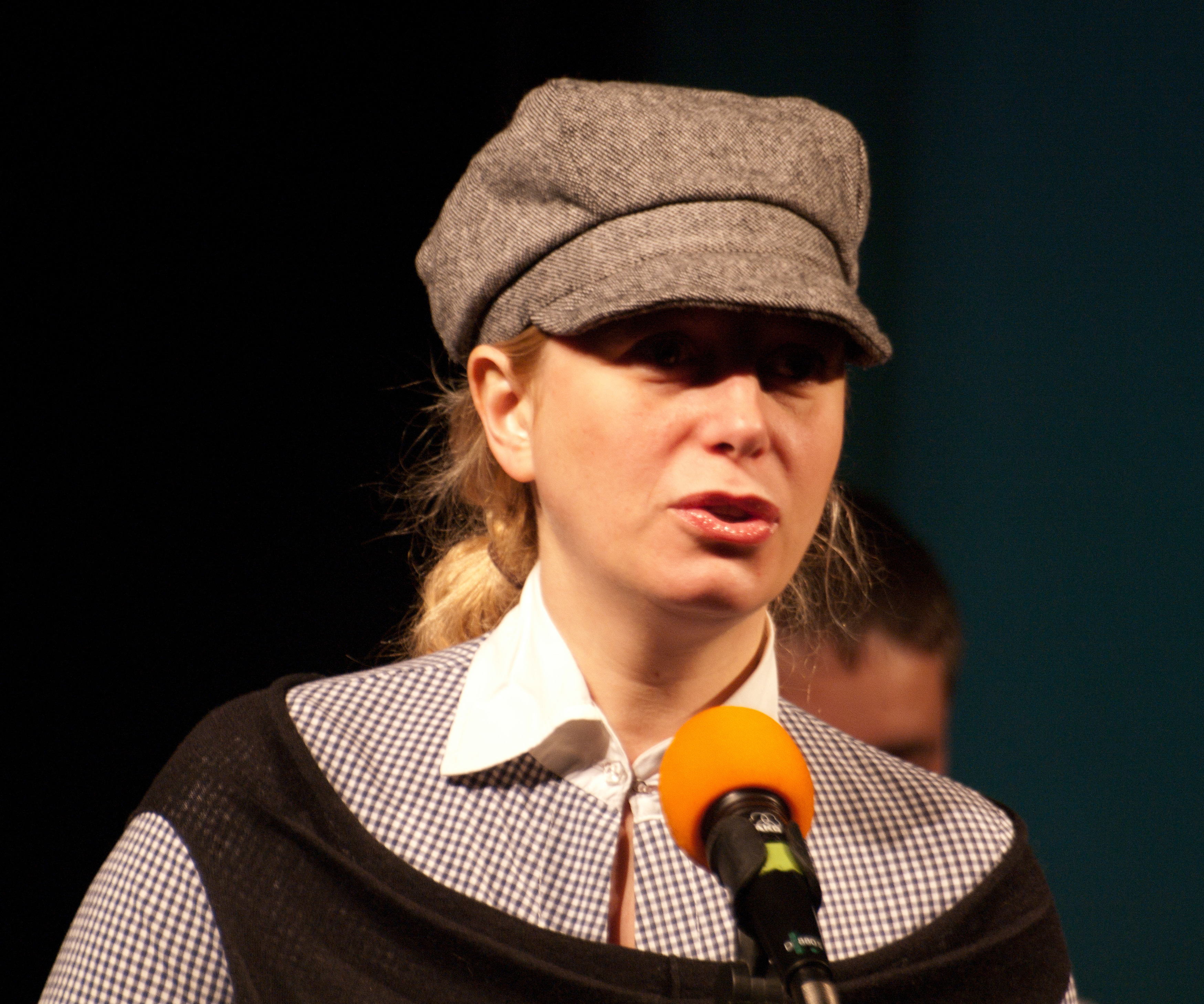 The popular Bulgarian actress, singer-songwriter and writer Vanya Shtereva at the BG Site 2010 awards ceremony.